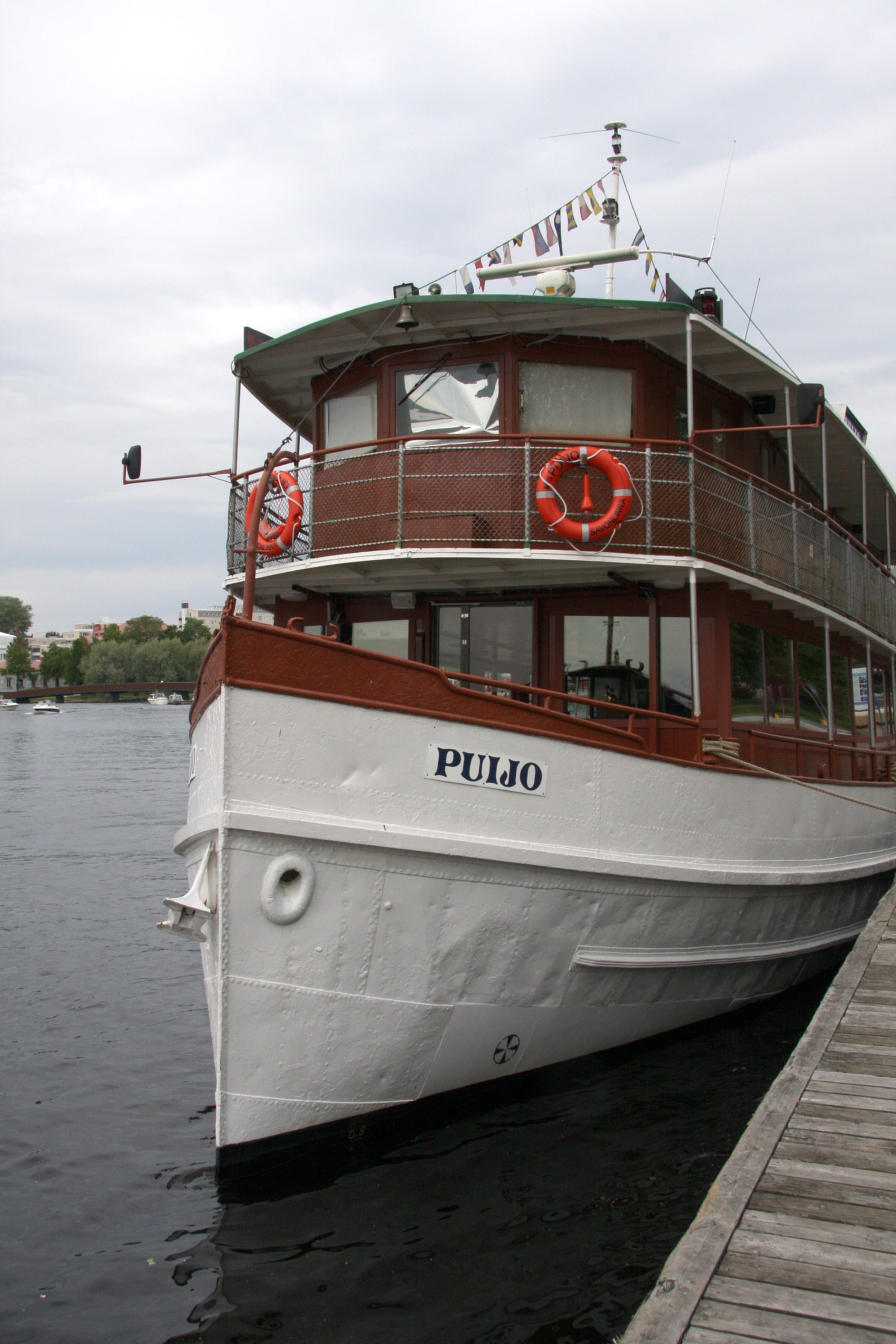 M/S Puijo in Savonlinna, Finland